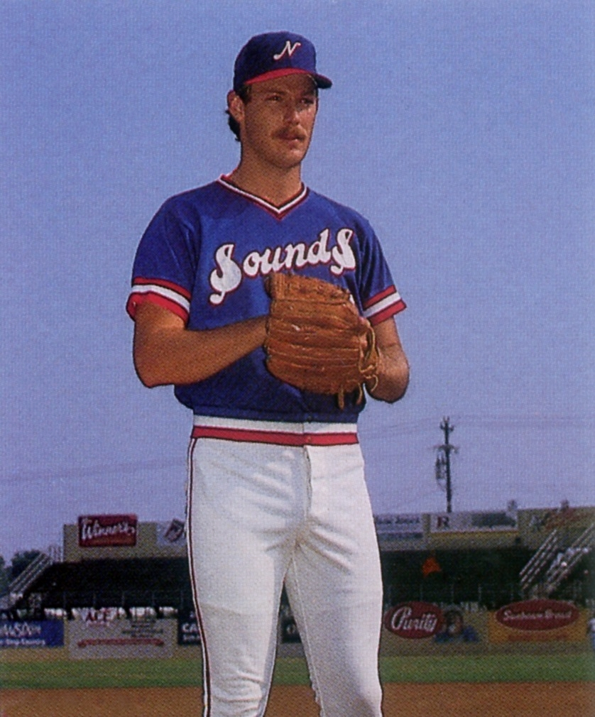 Pitcher Jeff Robinson of the 1986 Nashville Sounds Minor League Baseball team of the American Association